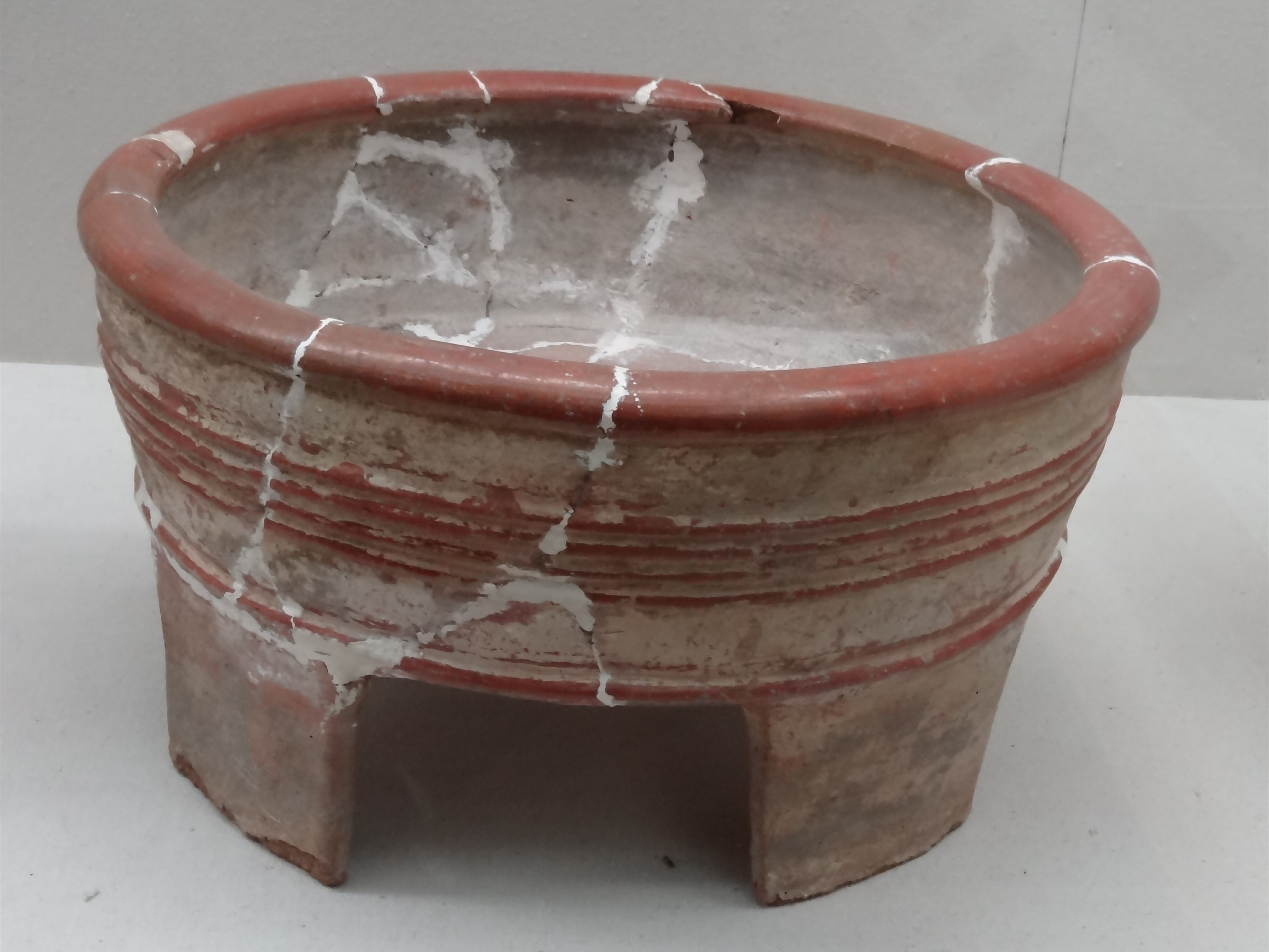 Terracotta tripod with title-shaped foot, late Yangshao Culture, 5500-4900 B.P. unearthed at Dadiwan in Qin'an